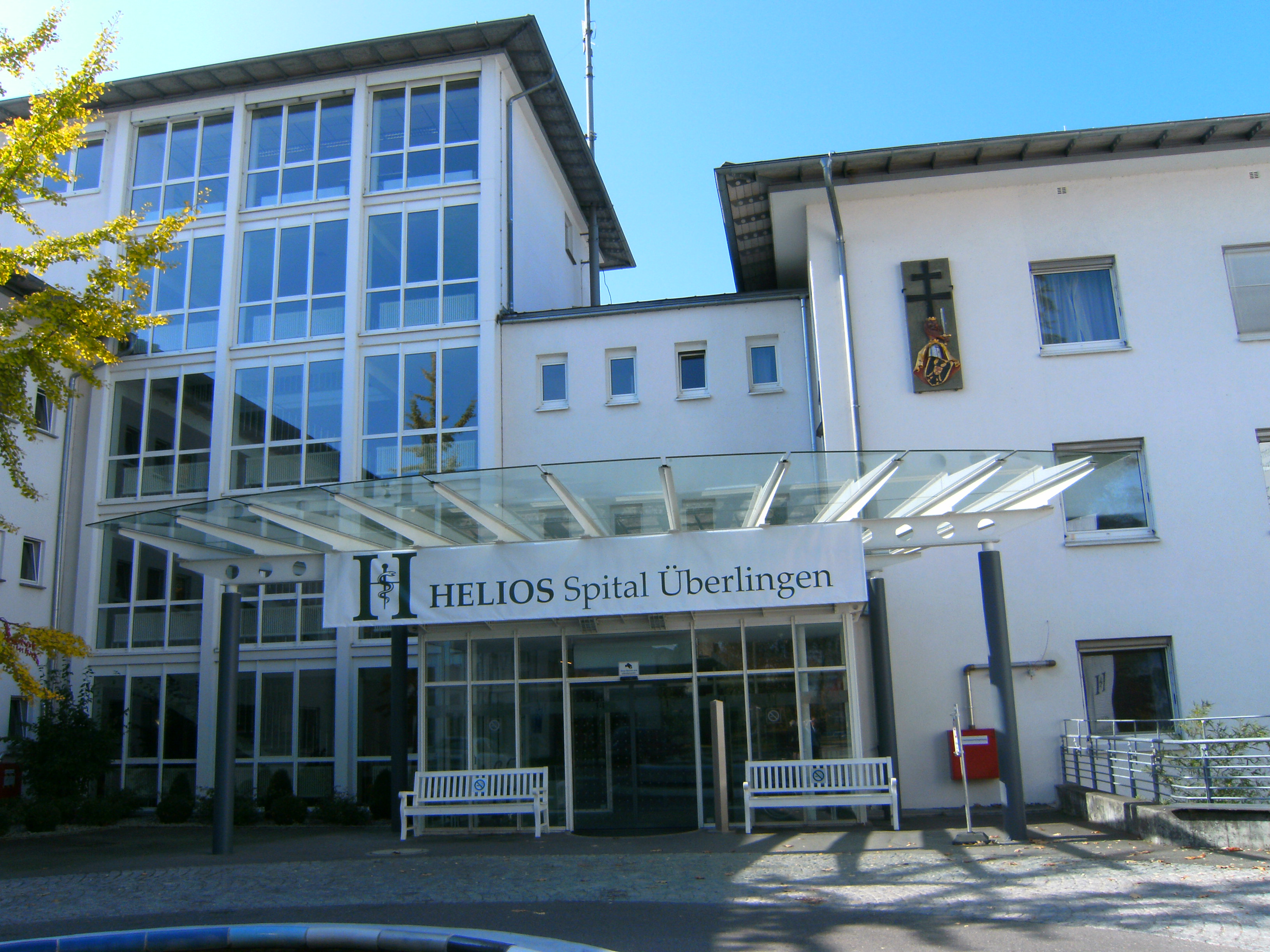 Überlingen, Germany: Helios Spital Überlingen (hospital), entrance.